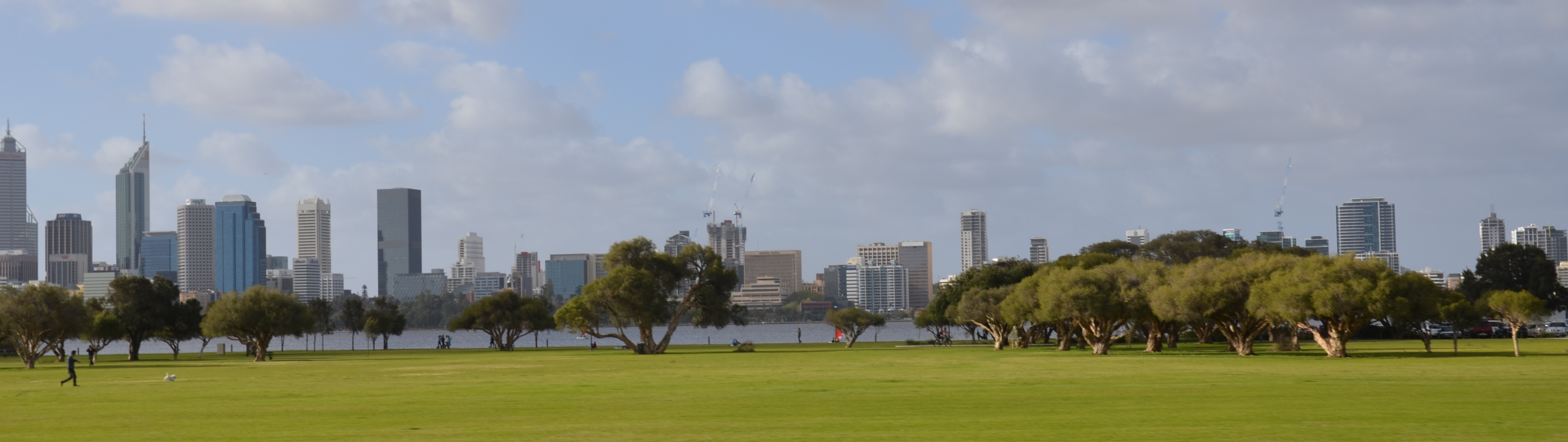 Sir James Mitchell park melaleucas and w: Perth city skyline